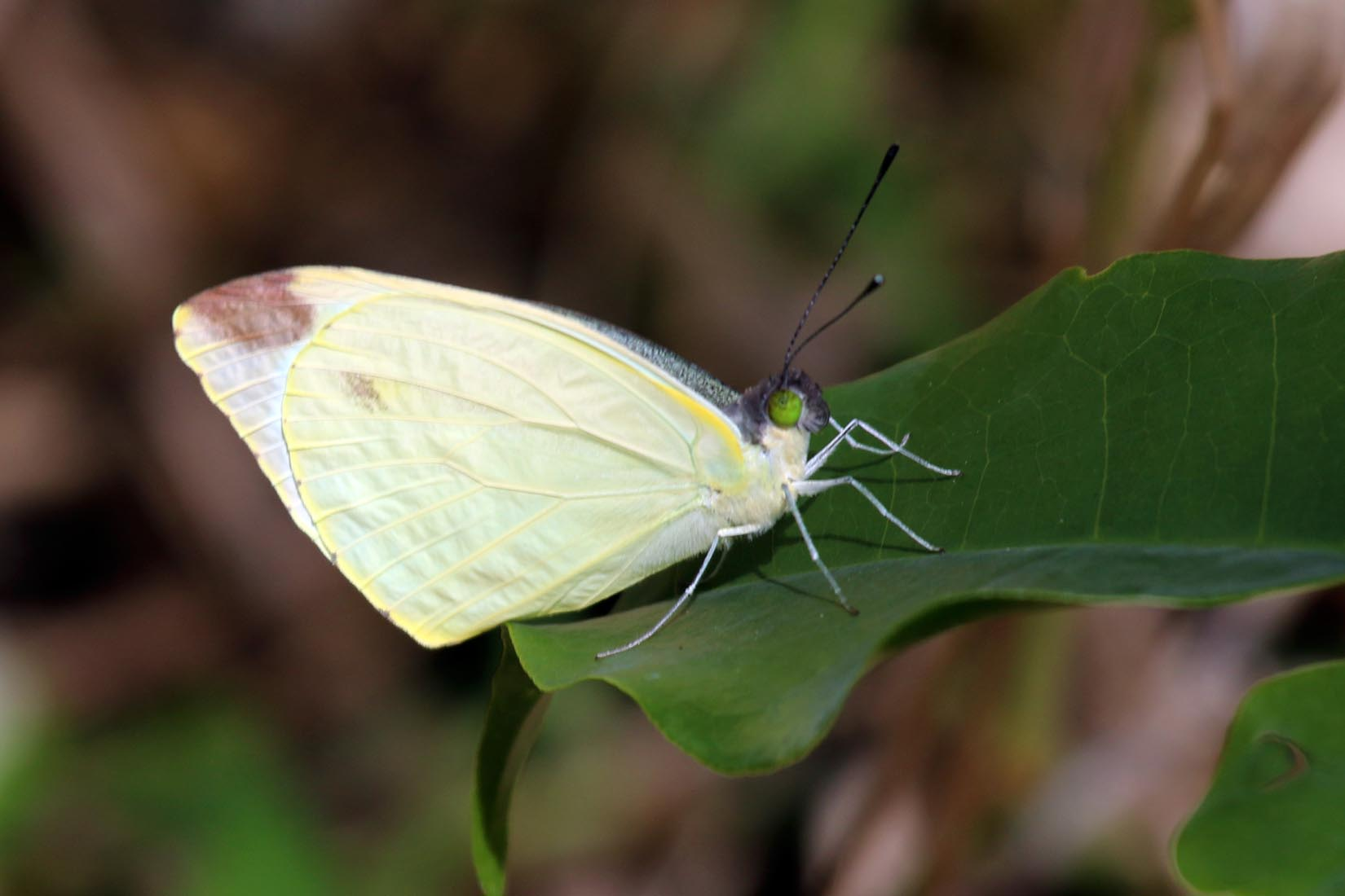 Large vagrant butterfly (Nepheronia argia varia) male, Lake Sibaya, KwaZulu Natal, South Africa